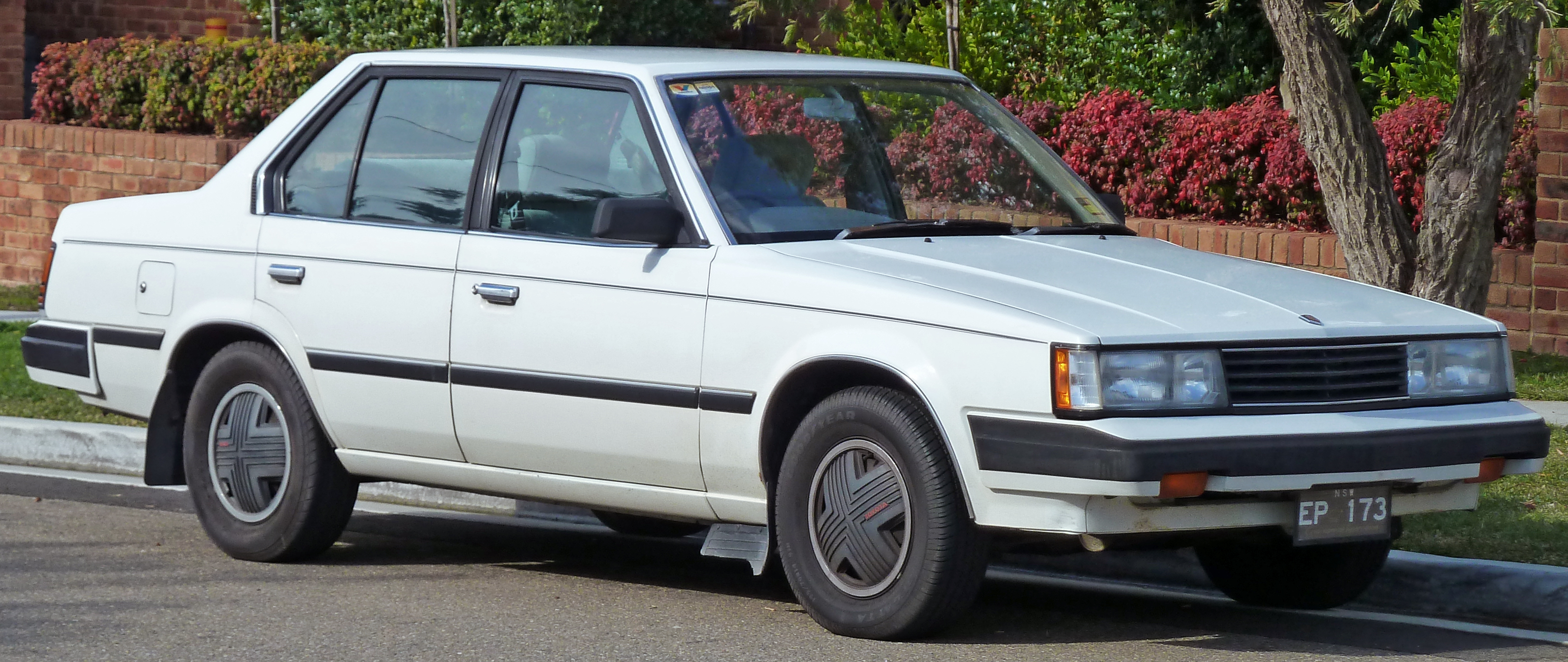 1983 Toyota Corona (ST141) CS-X sedan. Photographed in Blakehurst, New South Wales, Australia.